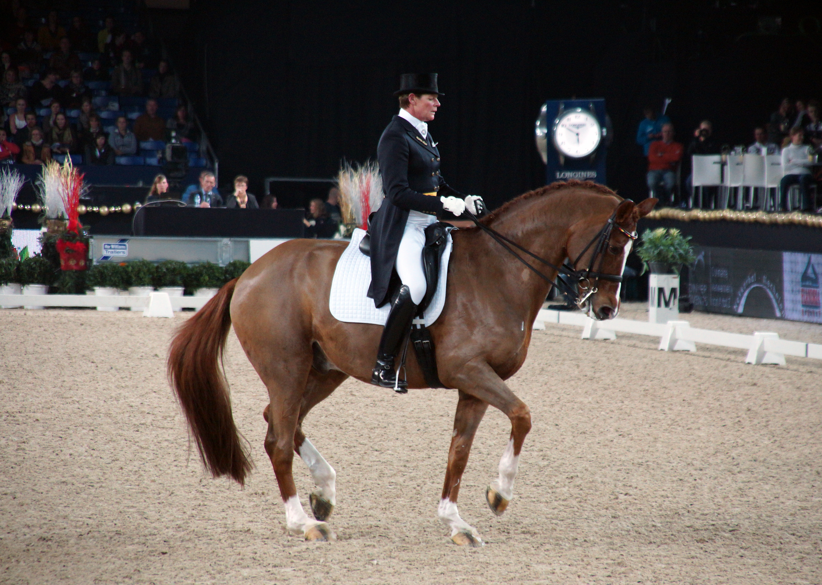 CDI 5* World Dressage Masters at 2013 Vlaanderens Kerstjumping - Jumping Mechelen: Ulla Salzgeber and Herzruf's Erbe at Grand Prix Freestyle